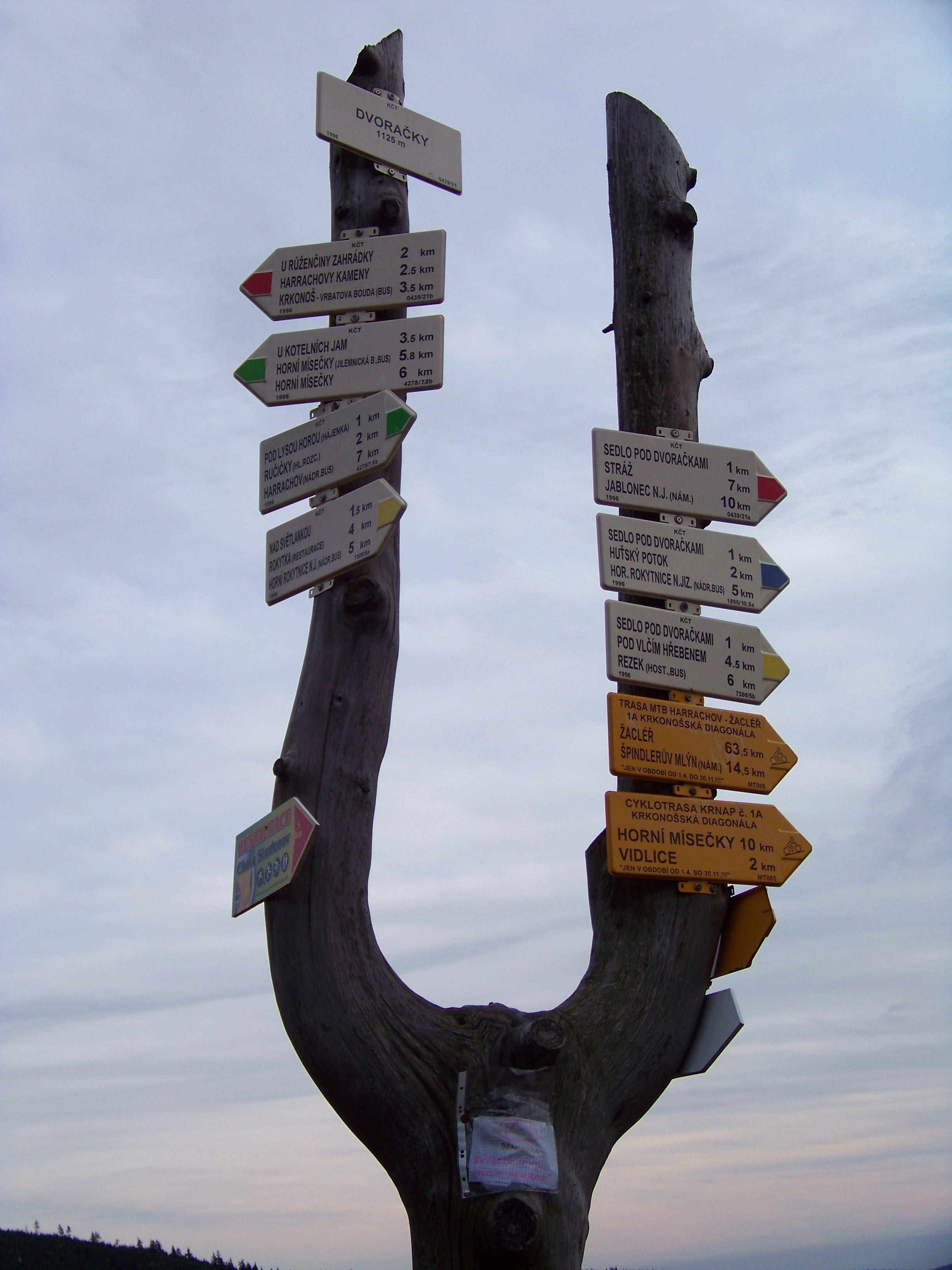 Rokytnice nad Jizerou-Rokytno, Semily District, Liberec Region, the Czech Republic. Dvoračky, a hiking fingerpost. - Google Maps - Google Earth